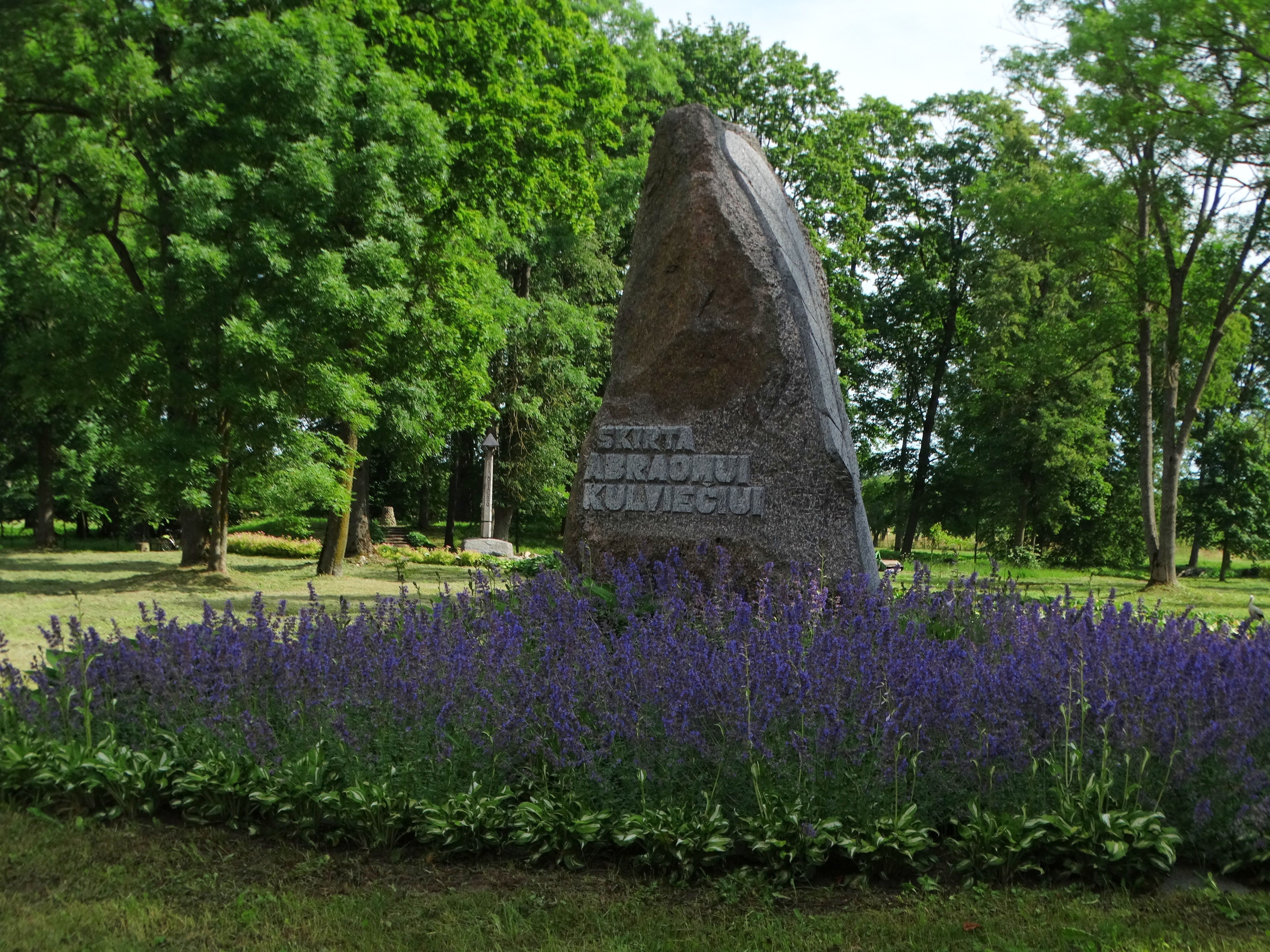 Kulva Park, stone in memory of Kulvietis, Jonava district, Lithuania